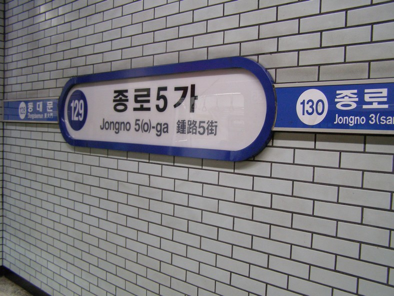 Jongno 5-ga Station